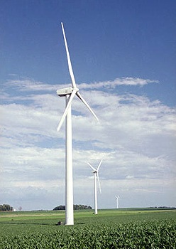 A General Electric 1.5 MW Wind Turbine